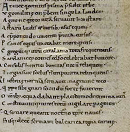 The Liber maiolichinus de gestis pisanorum illustribus ("Majorcan Book of the Deeds of the Illustrious Pisans") is a Medieval Latin epic chronicle in 3,500 hexameters, written between 1117 and 1125, detailing the Pisan-led joint military expedition of Italians, Catalans, and Occitans against the taifa of the Balearic Islands, in particular Majorca and Ibiza, in 1113–5. It was commissioned by the commune of Pisa, and its anonymous author was probably a cleric. It survives in three manuscripts. The Liber is notable for containing the earliest known reference to "Catalans" (Catalanenses), treated as an ethnicity, and to "Catalonia" (Catalania), as their homeland. At vice qui comitis Pisana presidet urbe Ugo; militie cui prebent singula laudem, Agmine qui toto vitam servavit honestam, Astarum ludis et cursibus usus equorum Ac preponendo vincenti premia cursus, Pisanos equites tractabat more Quiritis, Egregiumque virum Catalania tota frequentans Sardanieque comes celso celebrabat honore. Consulis Henrici bonitas nec non reliquorum, Iurgia sive scelus non impunita relinquens, Iustitie normam servavit in agmine toto. Quippe sibi gnari socii dum forte faverent Omnibus equa dabant placidi moderamina iuris, Constituuntque viros totum vigilare per agmen Qui servare queant nocturno tempore naves. Bisque decem servant Balearica regna carine